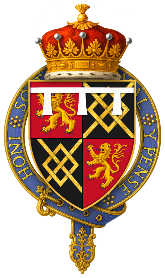 Coat of arms of Sir Thomas Fitzalan, 17th Earl of Arundel, KG